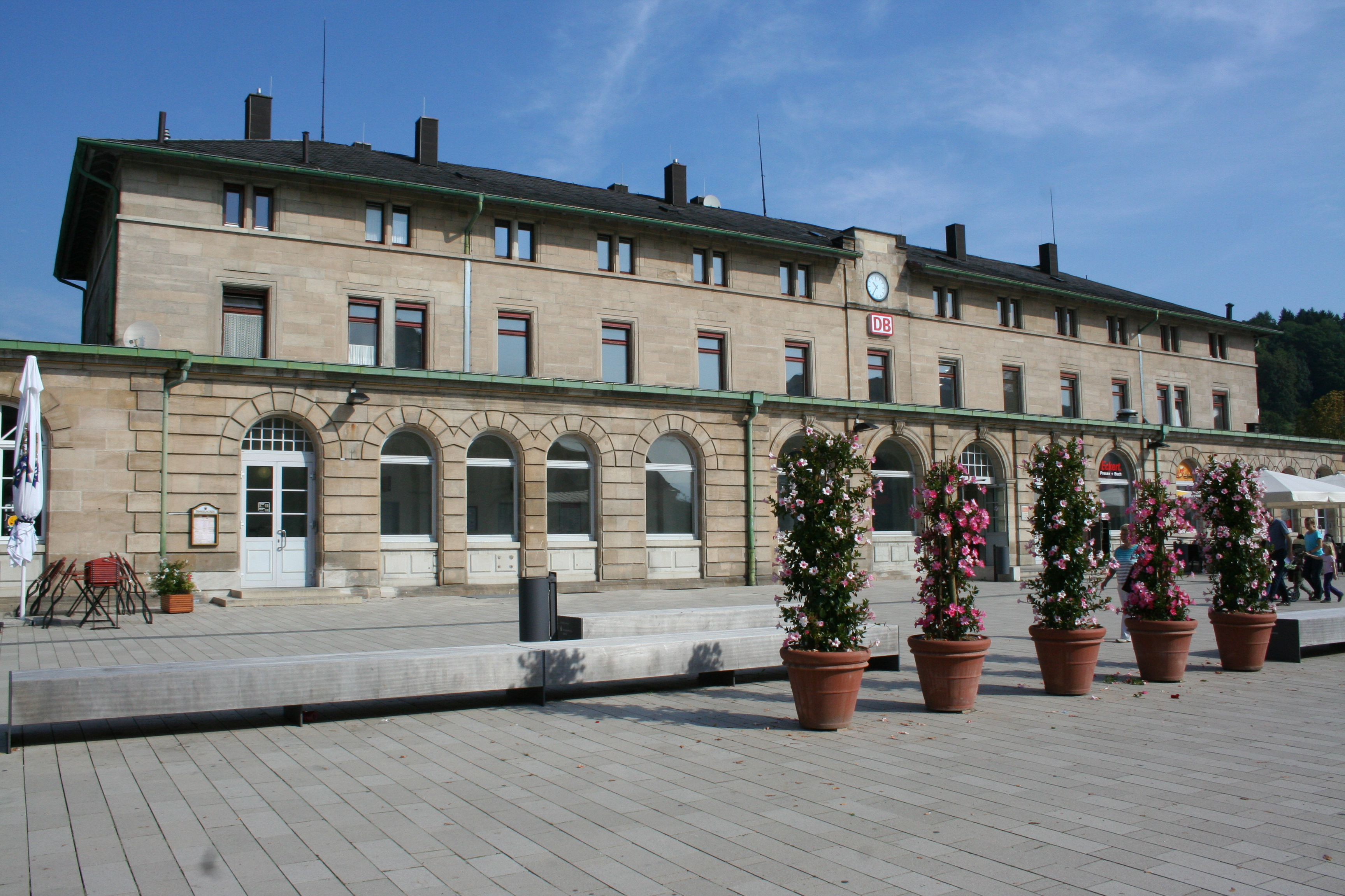 Station building in Schwäbisch Gmünd, Baden-Württemberg, Germany. The reception building was built in neoclassical style by the architect Georg von Morlok. The opening took place on July 25, 1861.